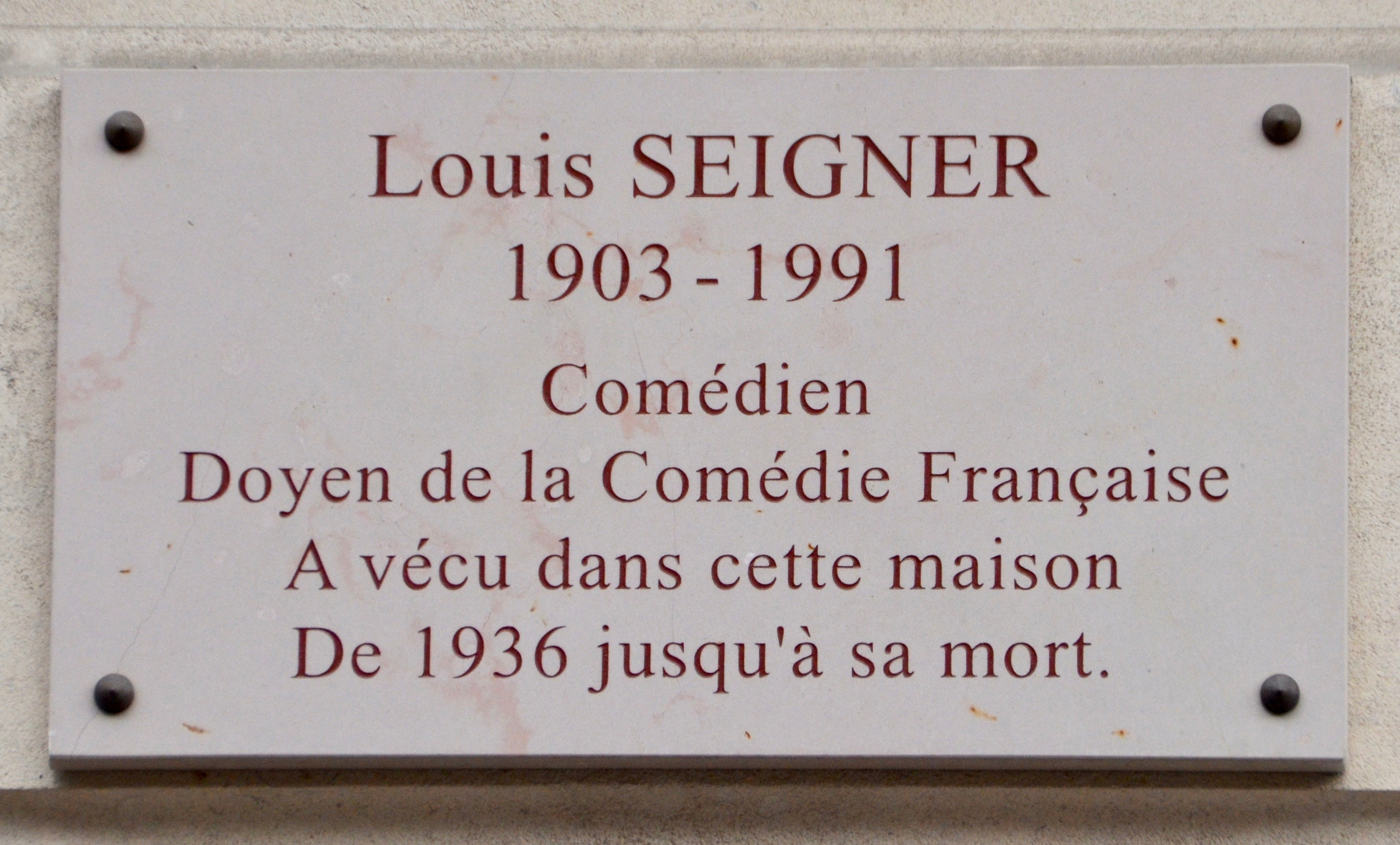 Read about him here